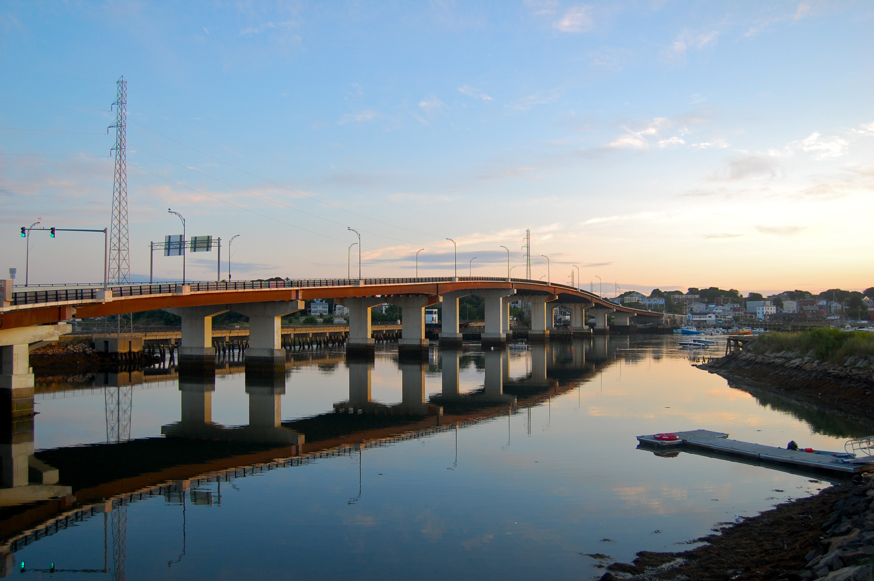 Veterans Memorial Bridge, looking from Salem toward Beverly. It is a steel and concrete beam bridge that replaced the Essex Bridge in 1997. From 1636 to 1738 a ferry operated here connecting Salem to Bevery. Beverly Harbor is east, to the right, while the Danvers River flows in from the west. A separate railroad bridge is visible behind it.